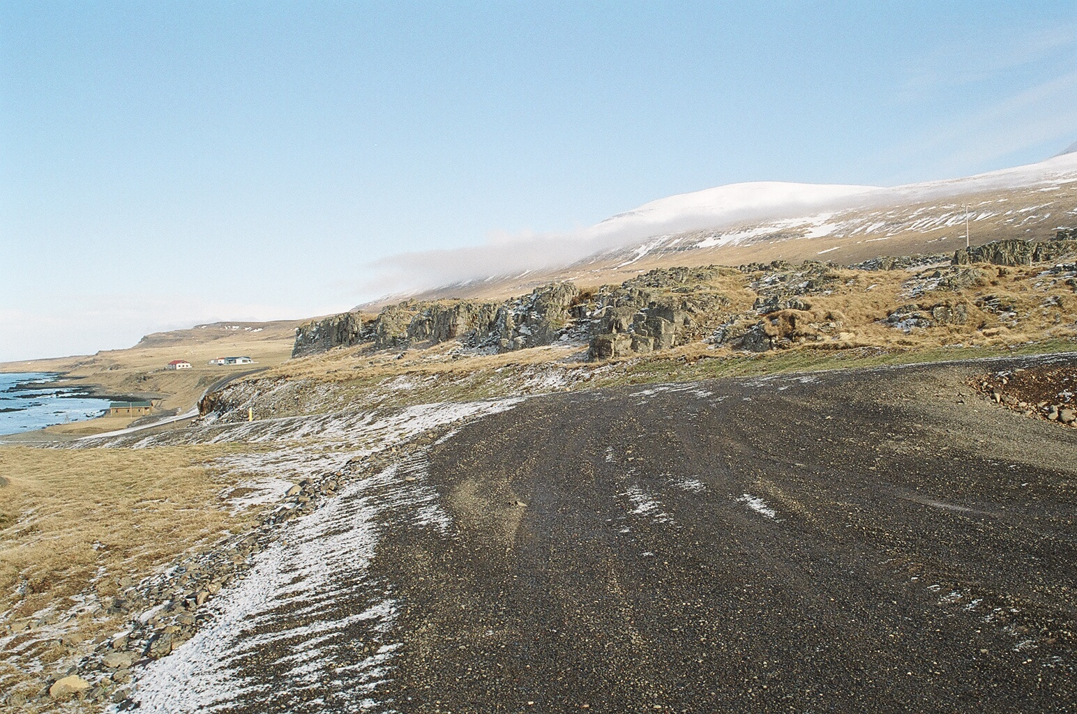 Vatnsnes, Iceland